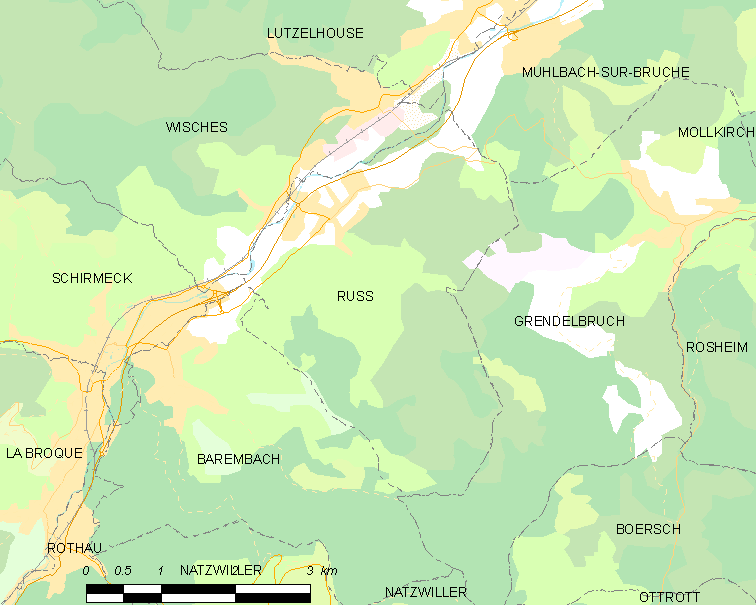 Map of French municipality